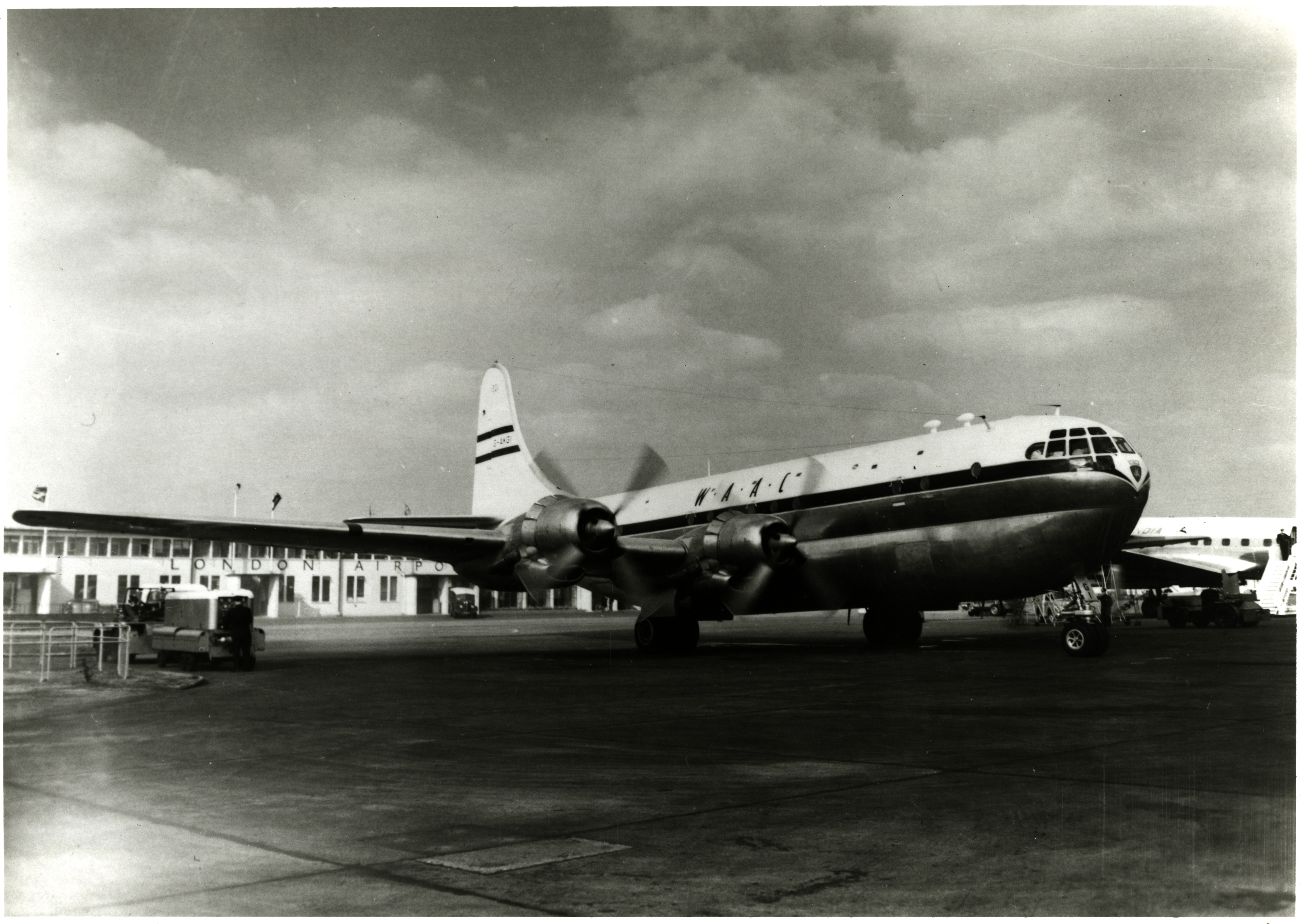 One-half right front view of West African Airways Corporation (WAAC) Boeing 377-10-32 Stratocruiser (probably r/n G-AKGI, c/n 15975) taxiing away from the terminal at London Airport; circa 1958.